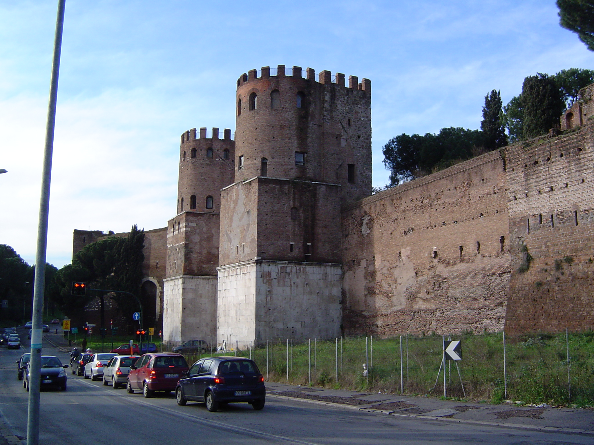 Porta San Sebastiano, Rome, Italy. Made by Joris van Rooden, the Netherlands on 03-01-2006